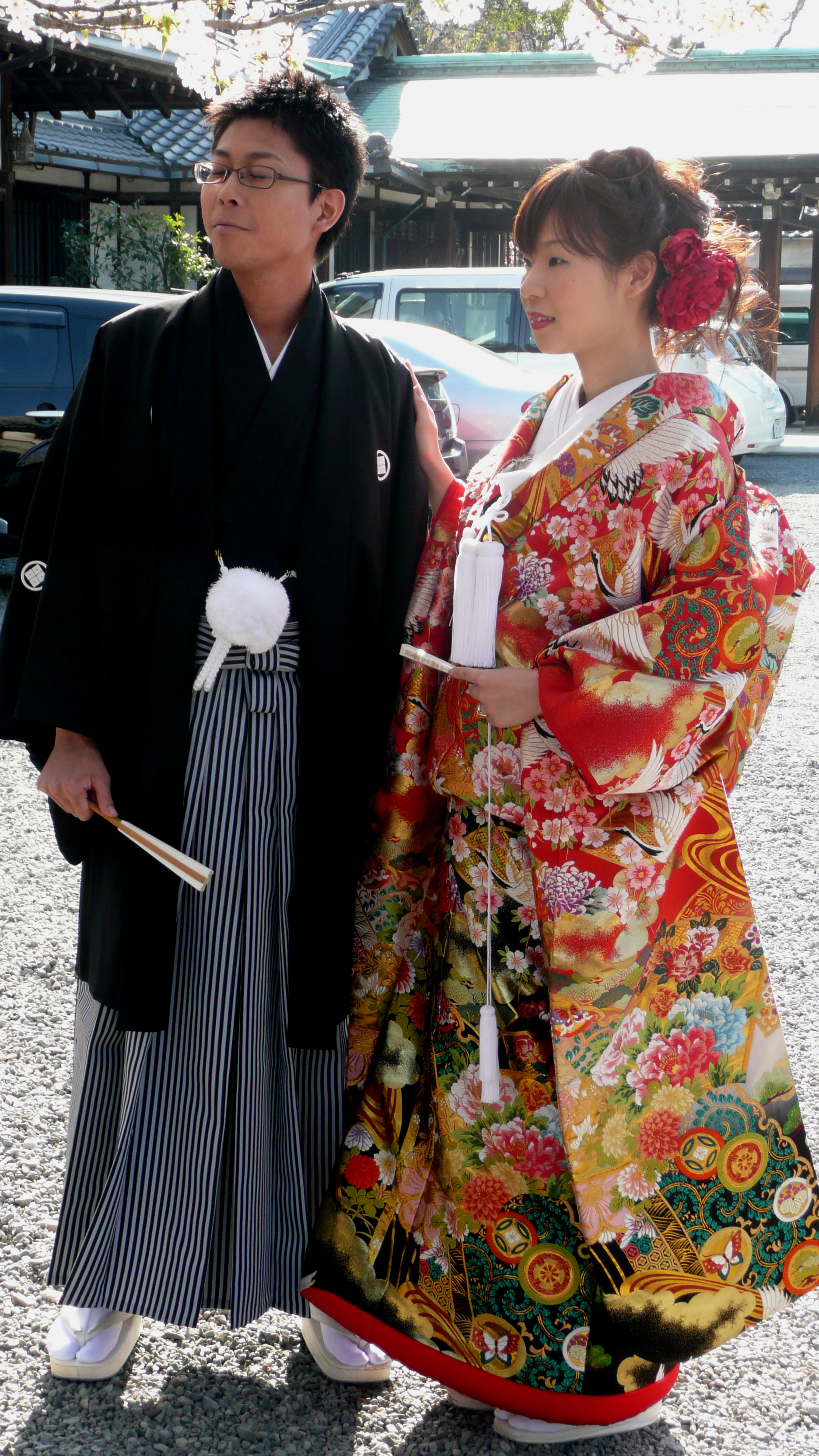 Man and lady in kimono, Osaka, Japan